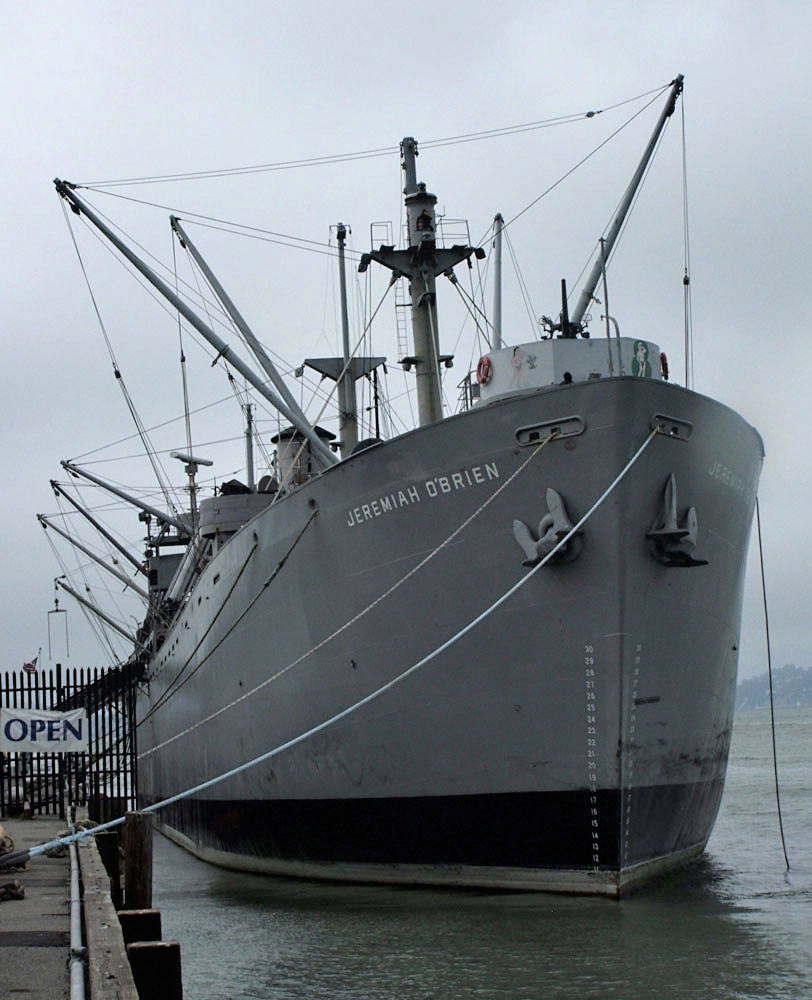 Taken and donated by User:Guinnog, 27 May 2007, San Francisco